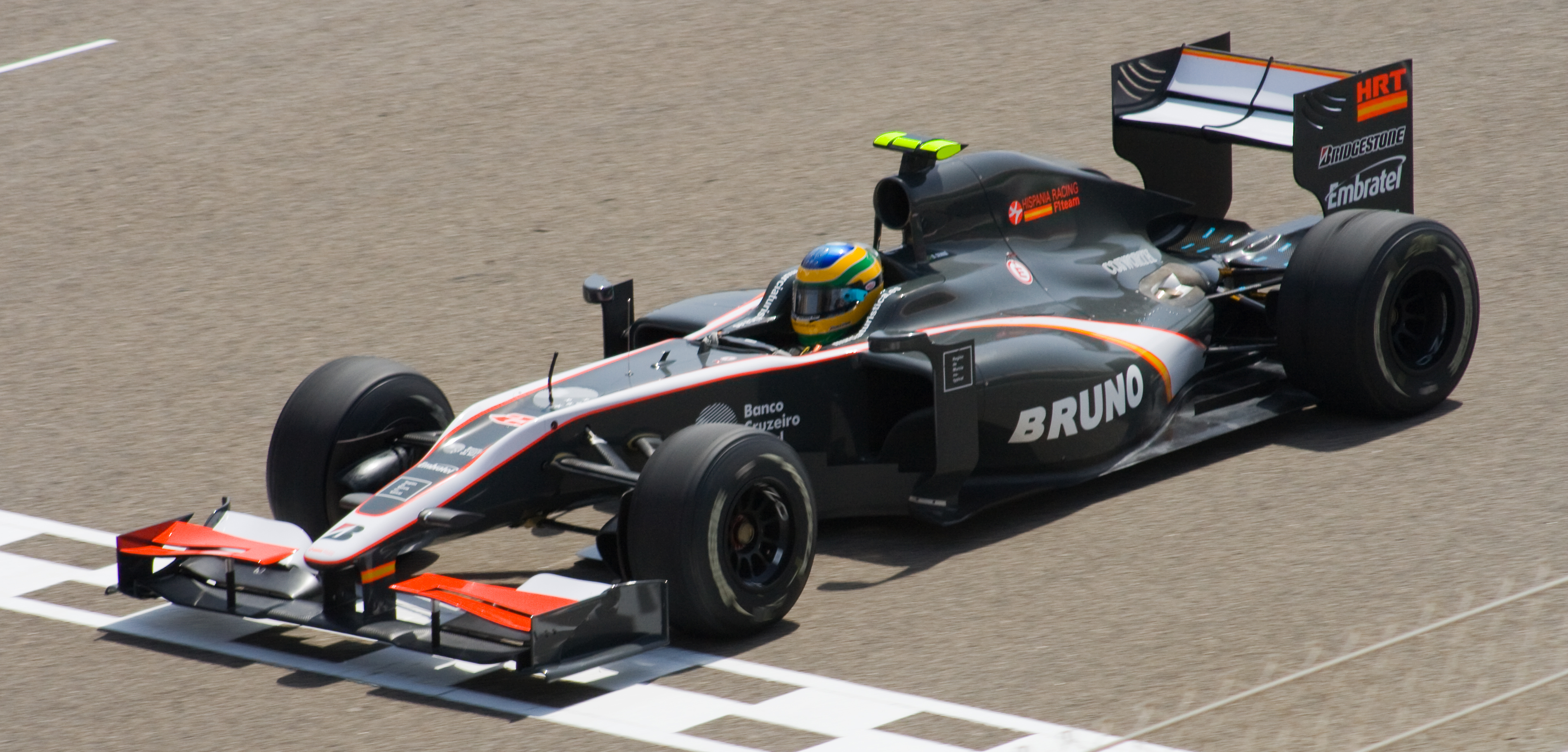 Bruno Senna driving for Hispania F110 at the 2010 Bahrain Grand Prix.